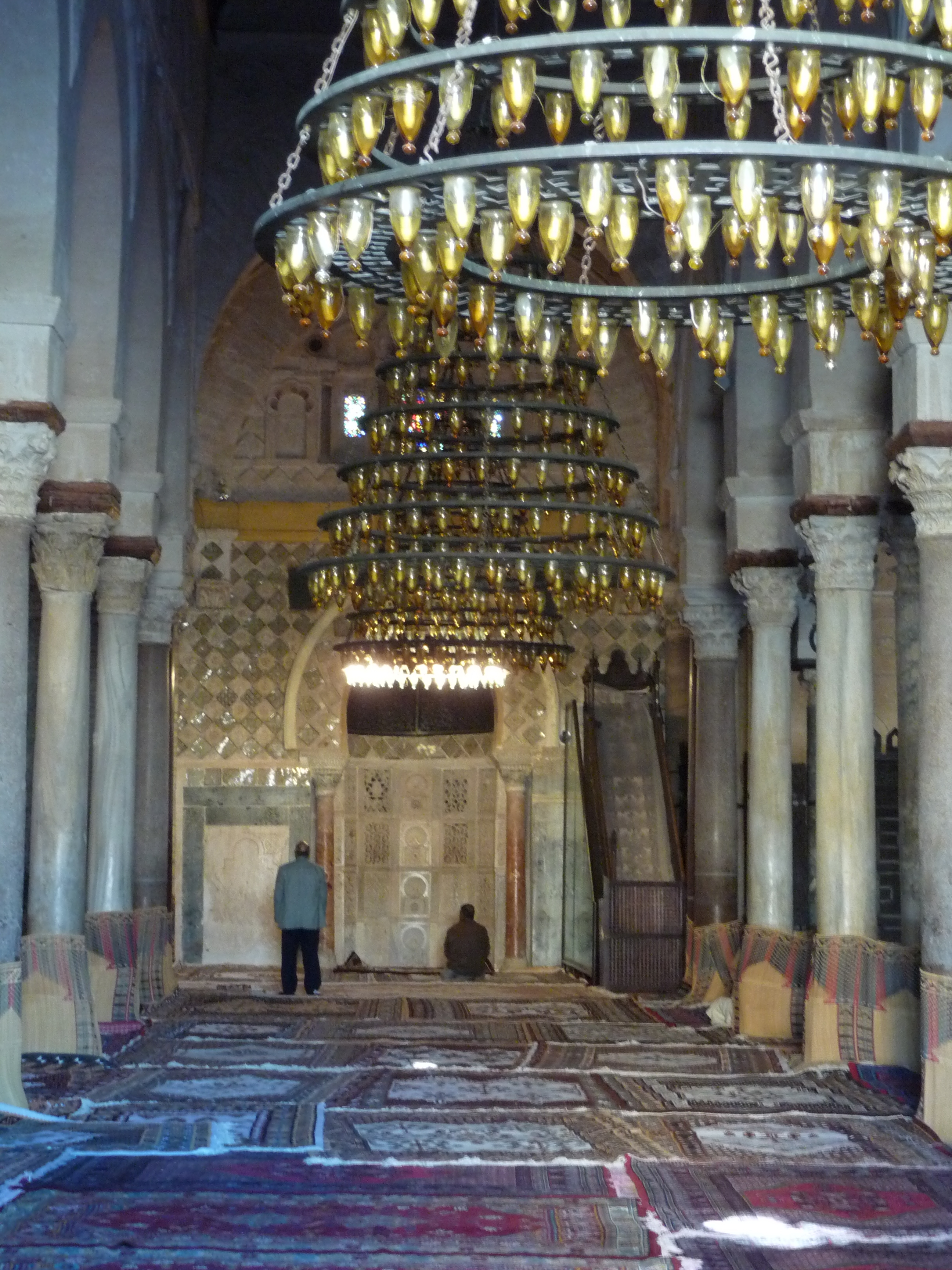 Prayer hall—Great Mosque of Kairouan, Tunisia — with mihrab, minbar, and Mosque lamps.